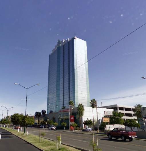 Torre Hermosillo in Hermosillo Sonora